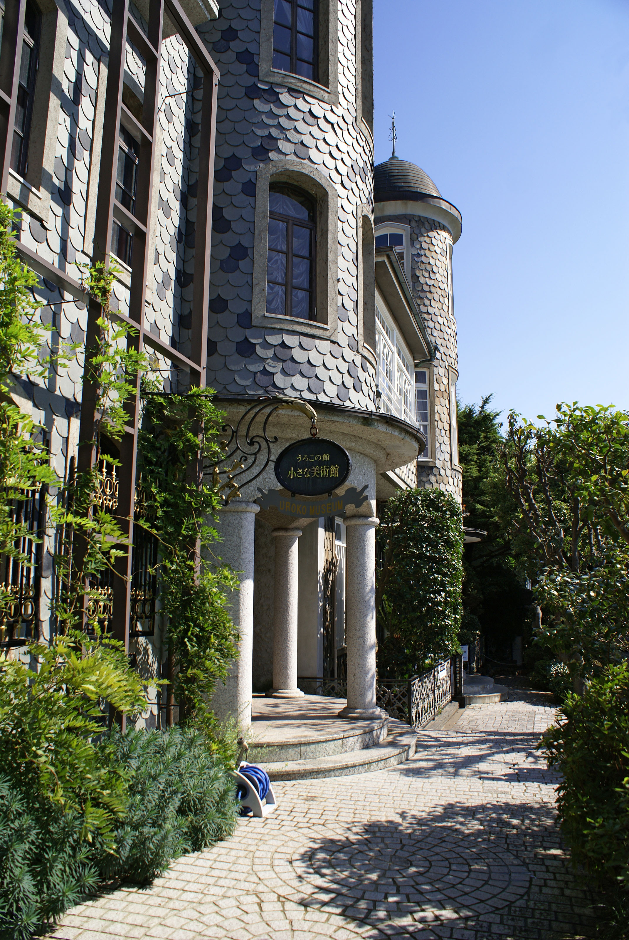 Uroko House and Uroko Museum of Art in Kobe, Hyogo, Japan